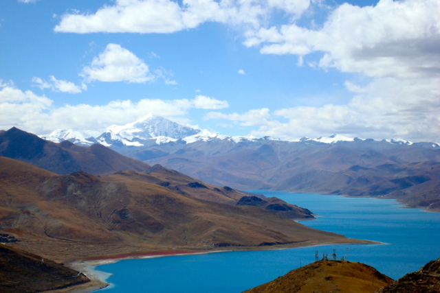 Looking from Kamba La to Yamdrok Yumtso with towering Noijinkangsang in the distance